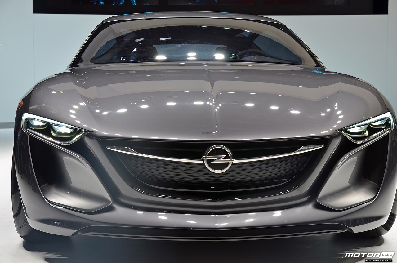 IAA Frankfurt 2013: Opel Monza Concept / Photo: Raphael Jahn ______________________ Please feel free to use this image for FREE under the Creative Commons (CC) licence. However, if you use the image, pls set a backlink to and give credit as following: "Image: ". For highres images or any other inquiries pls contact mailto: . Thanks.